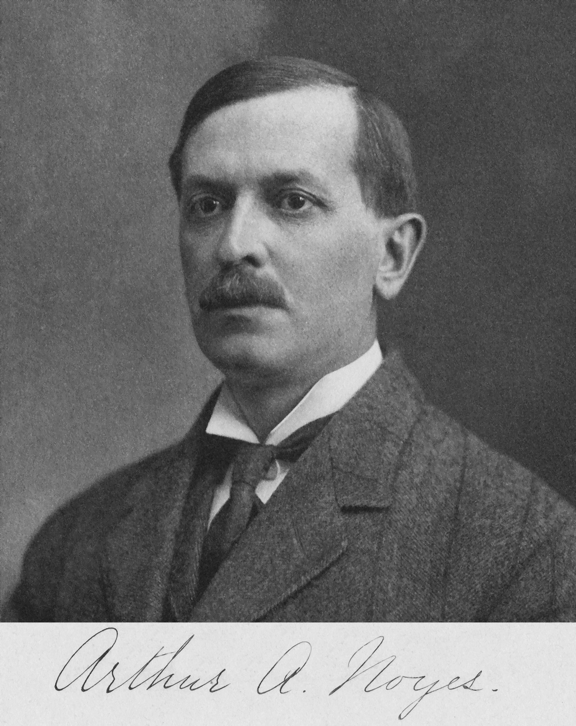 Arthur Amos Noyes (1866 – 1936)